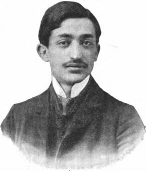 Leo Forgacs (chess player)